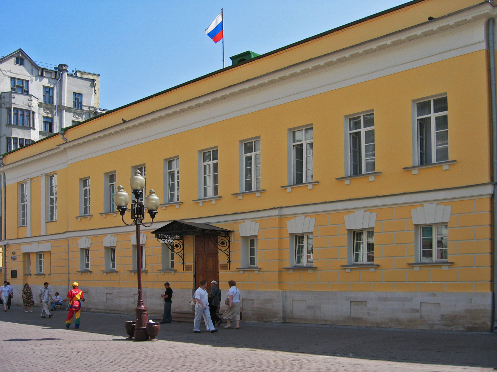 Khovansky House in the Arbat street, Moscow